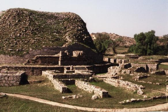 The Dharmarajika Buddhist monastery — ruins at the Dharmarajika, Taxila archaeological site. Located in ancient Taxila — in Punjab Province, Pakistan.